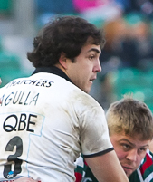 Leicester Tigers vs Bath, Aviva Premiership, Welford Road, Saturday 1st December 2012